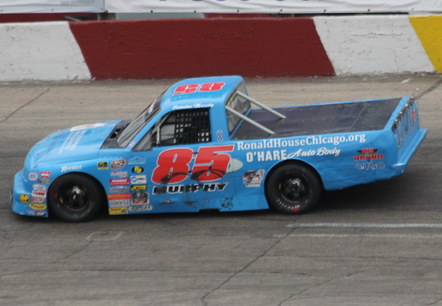 Camden Murphy racing in the American Ethanol Truck Series at the National Short Track Championship race at Rockford Speedway. Murphy finished in second place.